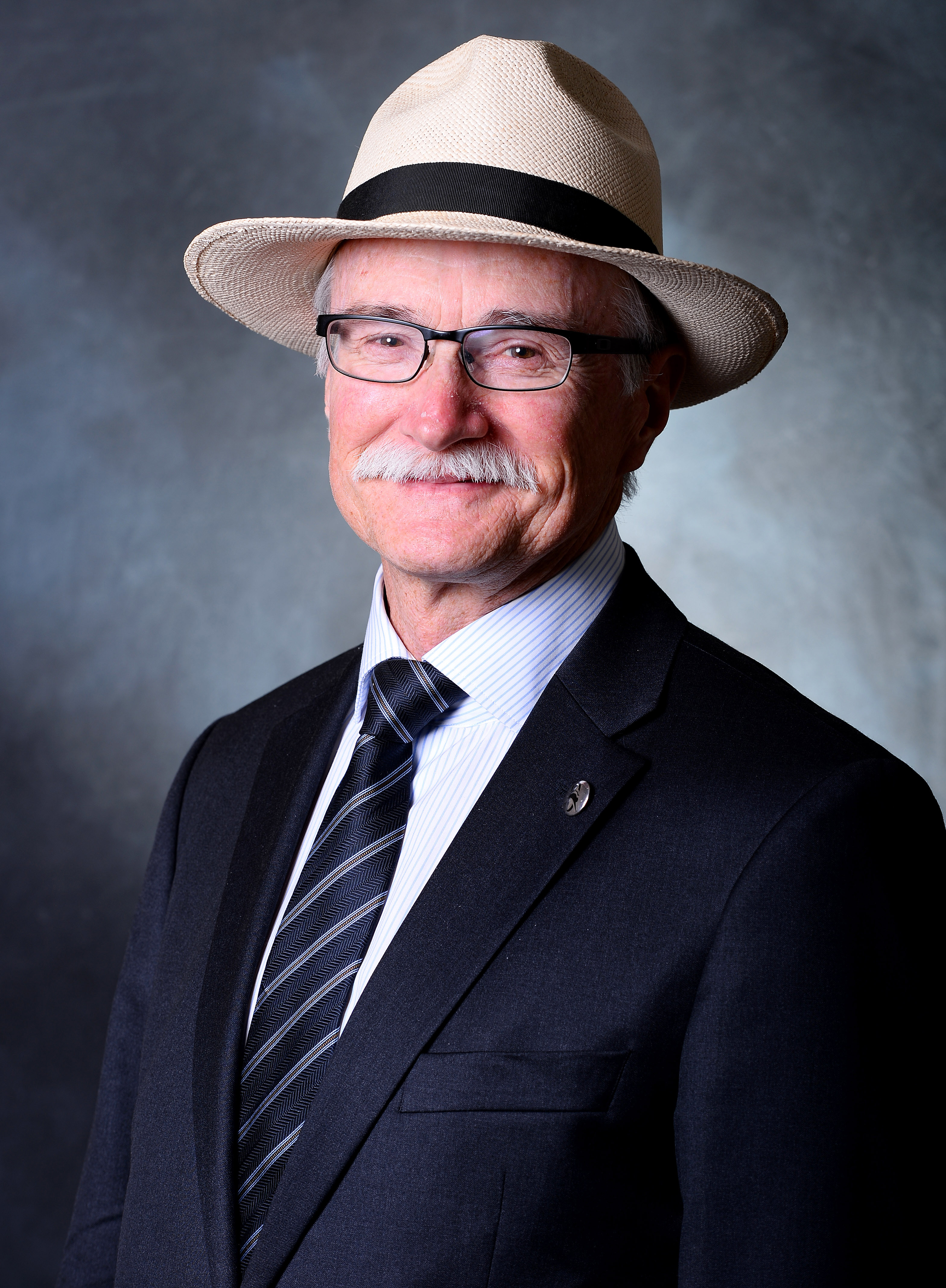 2014 APC Board member Nick Dean at the 2013 Australian Paralympic Committee AGM Sydney